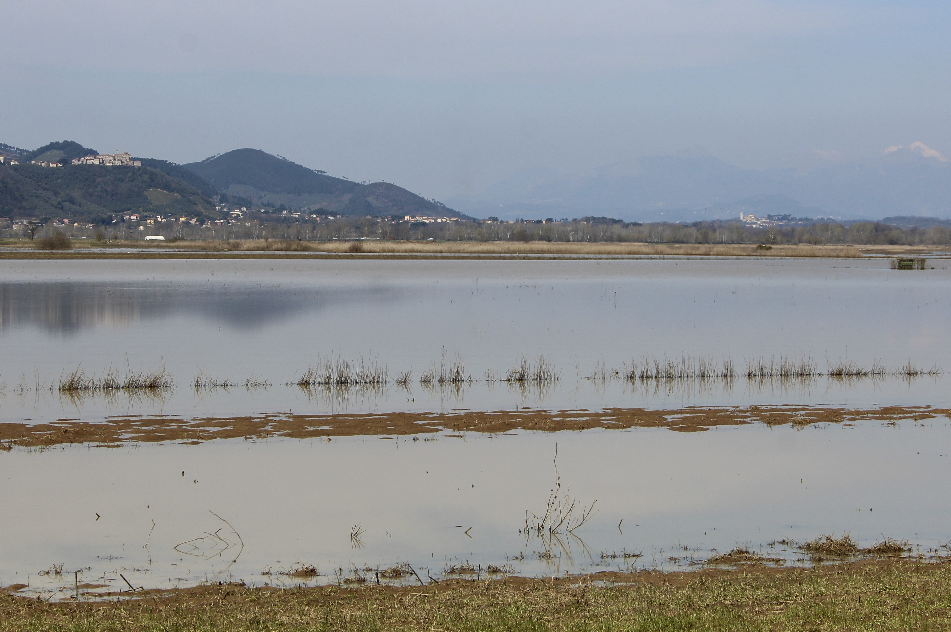 Lake Lago di Bientina, Bientina, Province of Pisa, Tuscany, Italy